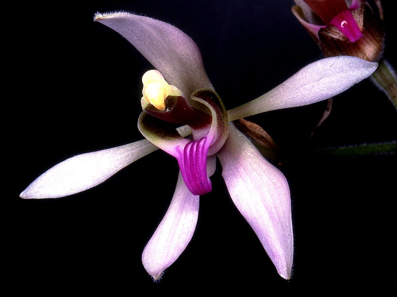 Ancistrochilus rothschildianus